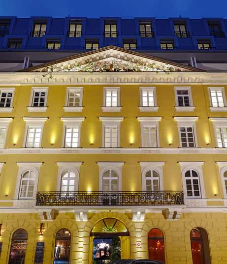 Current picture of Palac Motesickych in Bratislava in 2011